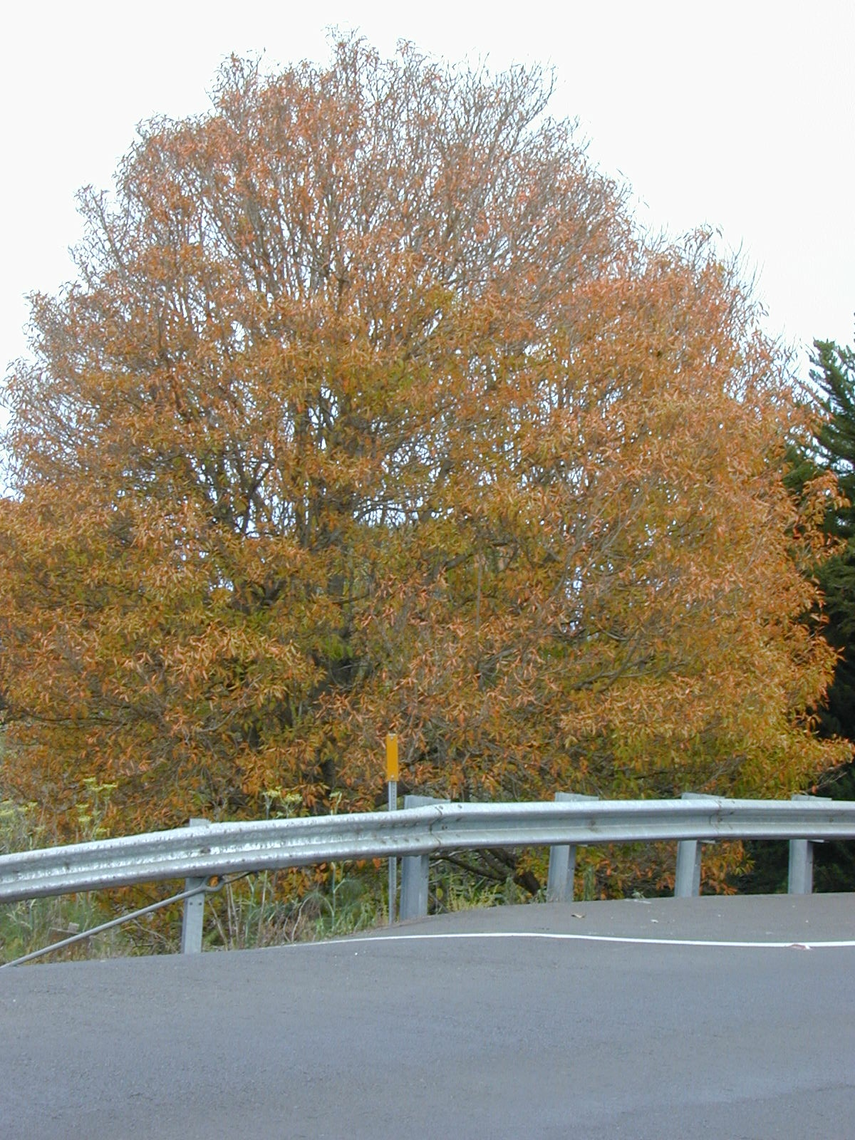 Citharexylum spinosum (habit with orange leaves). Location: Maui, Kula